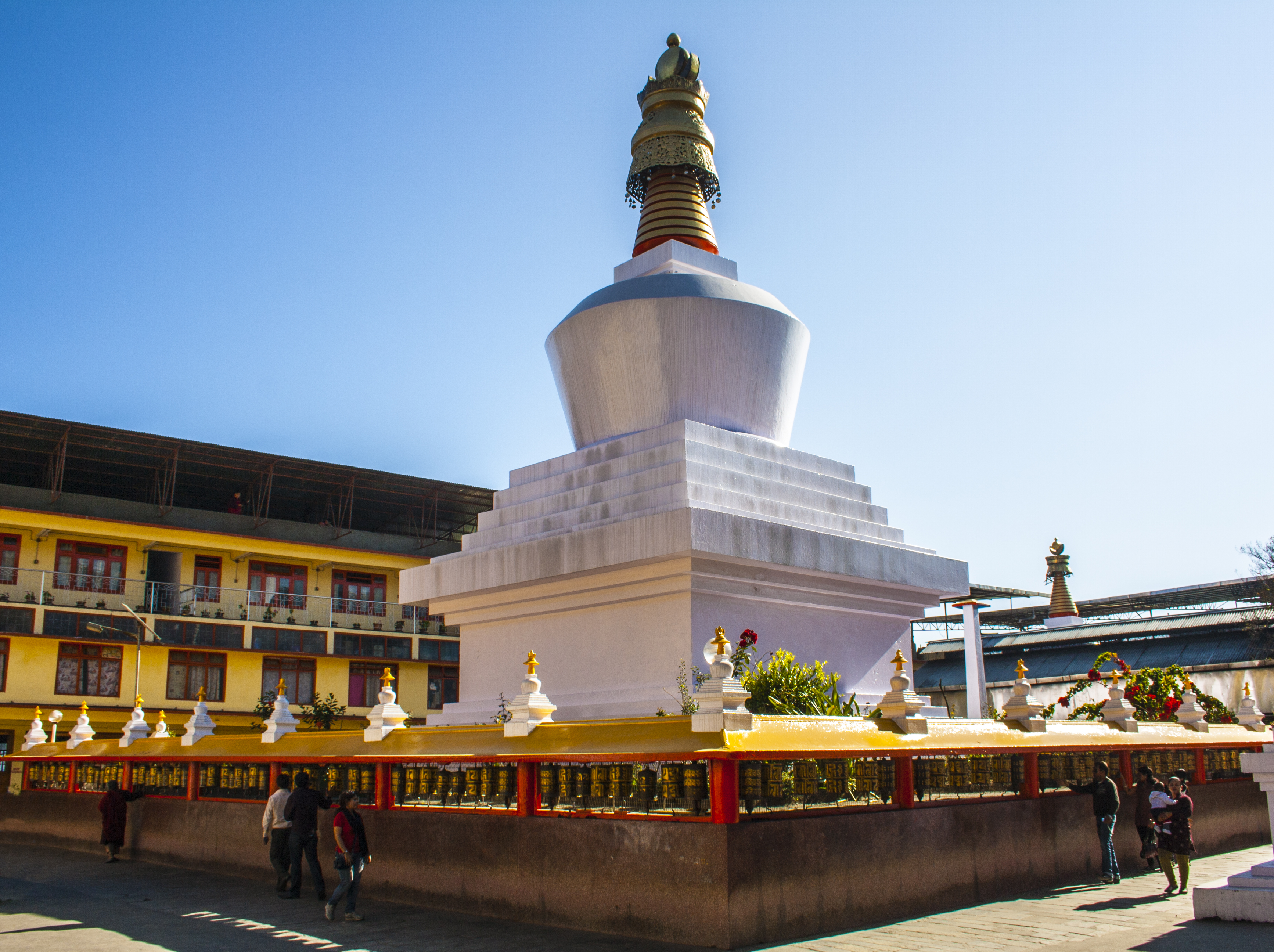 Dro-dul Chorten is Stupa and One of the attraction of visitors and Photo has been taken during my visit in Gaangtok, Sikkim.